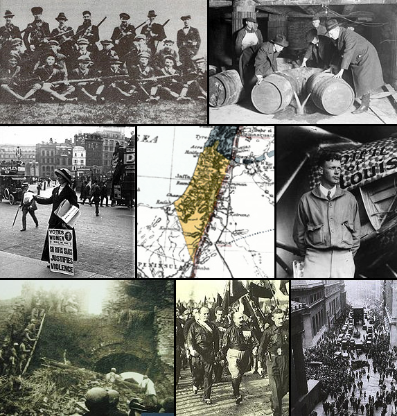 A montage of notable events in the 1920s.